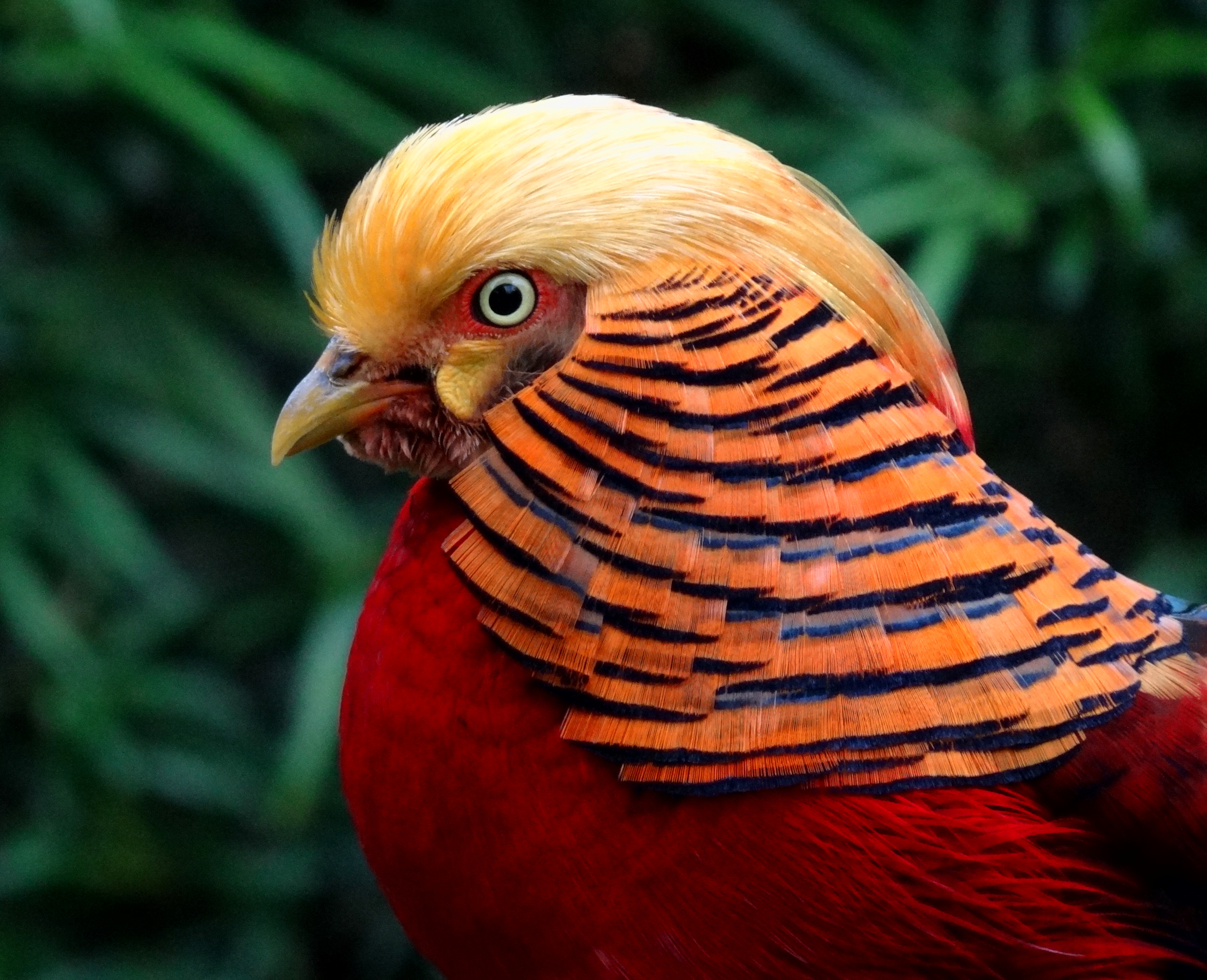 A Golden Pheasant (Chrysolophus pictus) photographed in the Kuala Lumpur Bird Park.